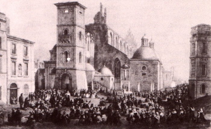 Devotion no the Dominican church ruins after a fire in 1850